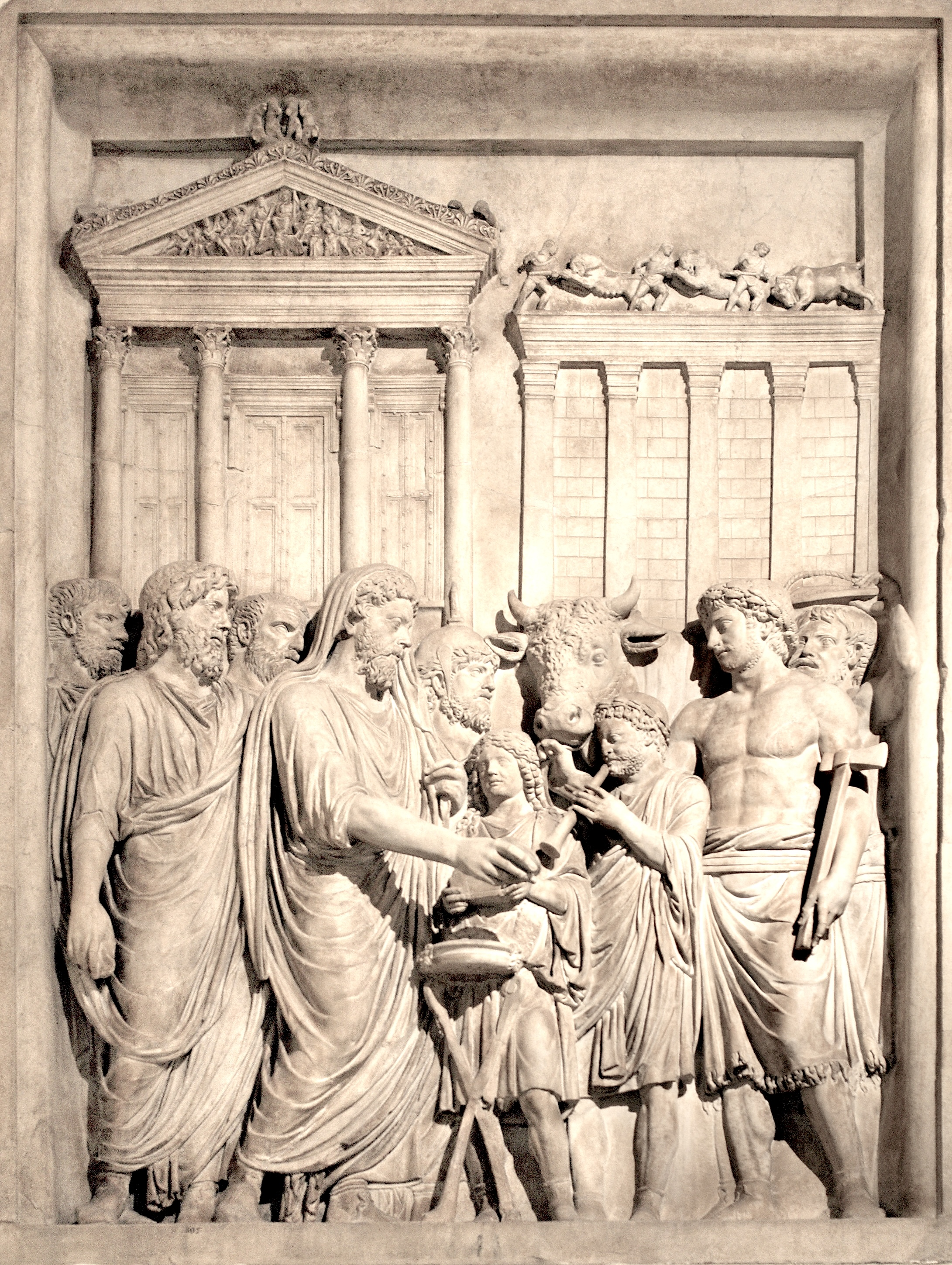 Emperor Marcus Aurelius (161-180 AD) and members of the Imperial family offer sacrifice in gratitude for success against Germanic tribes. In the backgrounds stands the Temple of Jupiter on the Capitolium (this is the only extant portrayal of this roman temple). Bas-relief from the Arch of Marcus Aurelius, Rome, now in the Capitoline Museum in Rome.